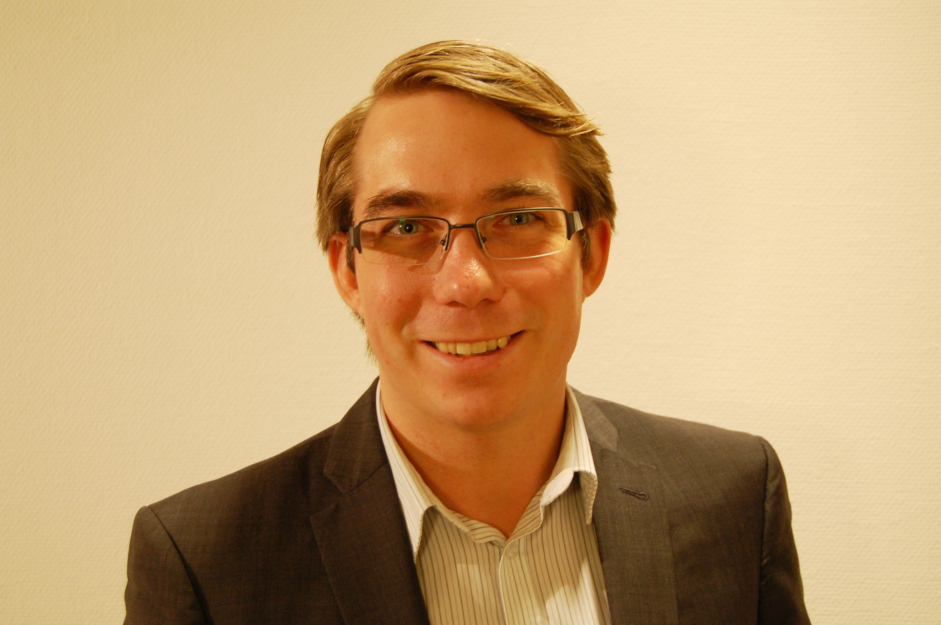 Robert Noord (S)